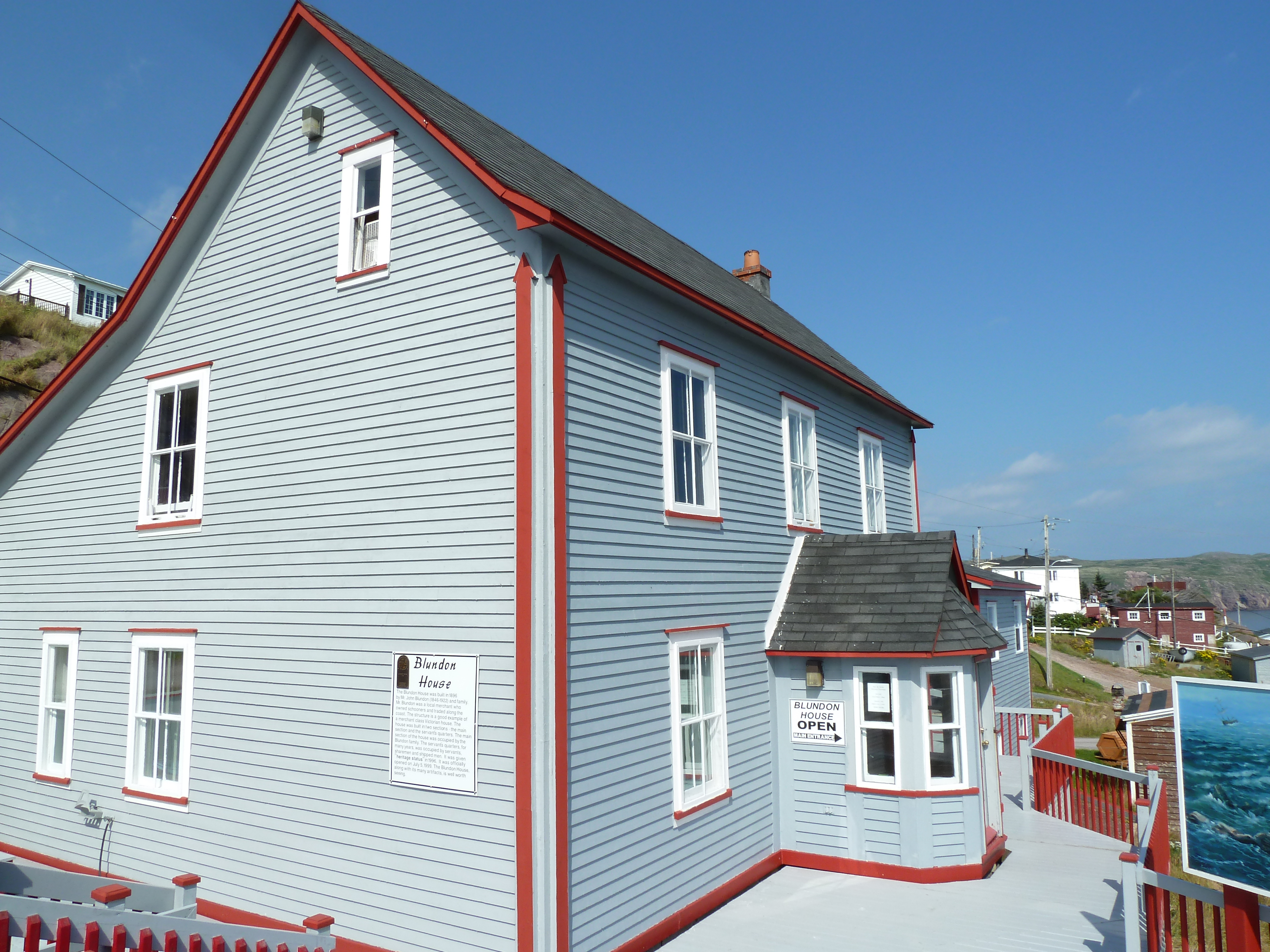 Blundon House, Bay de Verde, Newfoundland and Labrador